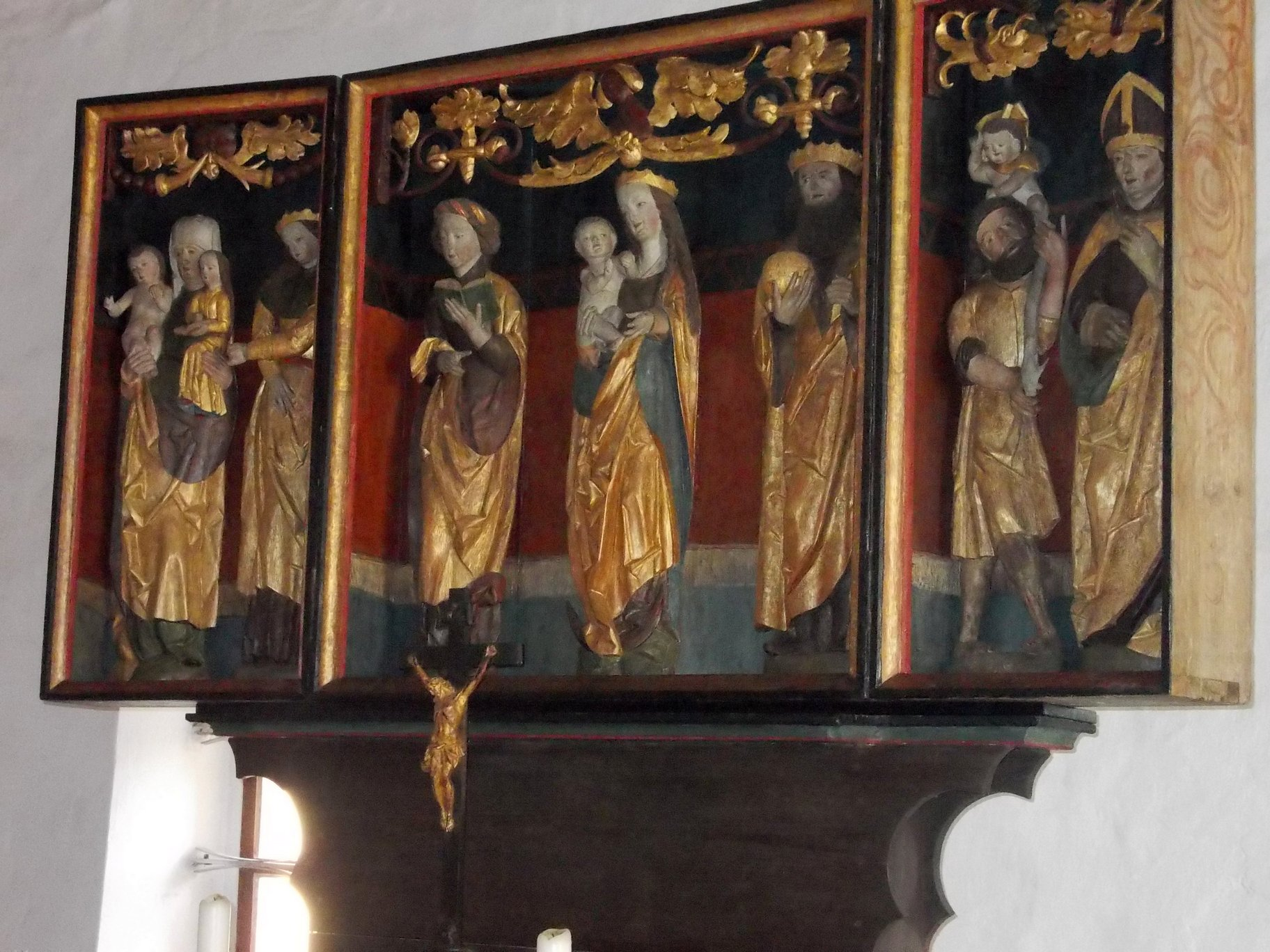 Church of the Elbe Boatmen in Priesitz (Bad Schmiedeberg, Wittenberg district, Saxony-Anhalt), Gothic winged altar